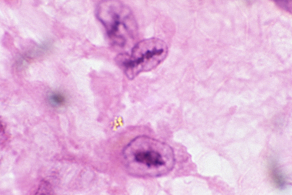 Anitschkow Myocytes in an Aschoff Body, Rheumatic Myocarditis